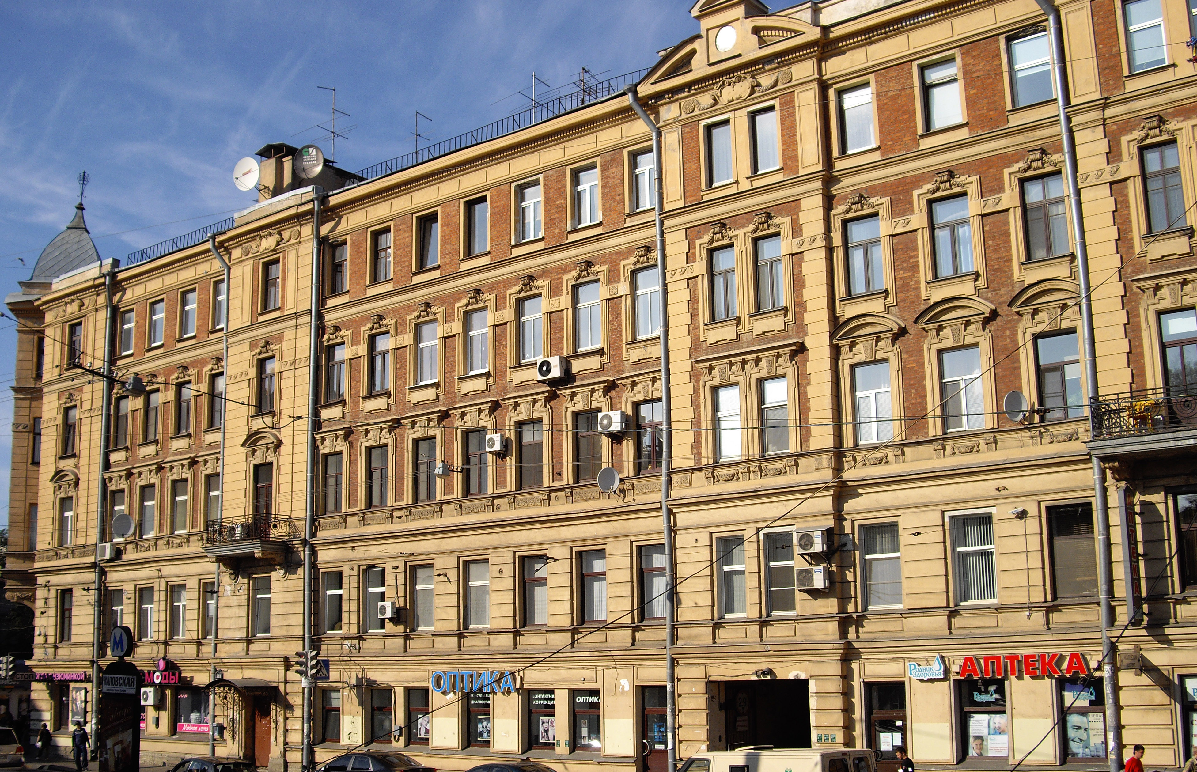 13, Bolshaya Zelenina Street / Chkalovsky Prospekt (Saint-Petersburg, Russia). Architect Michail Geisler, 1899-1900.